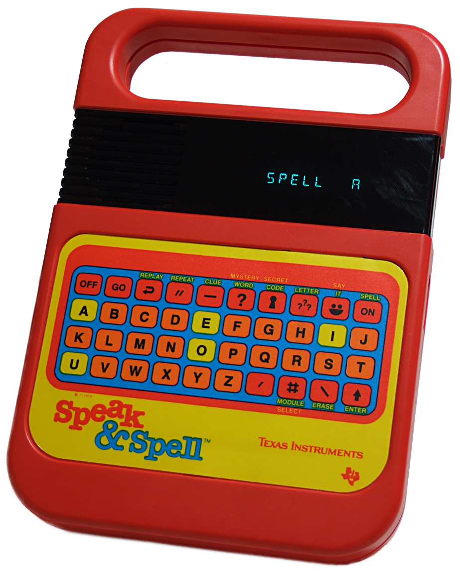 Photo of Texas Instruments Speak & Spell toy, shadow removed